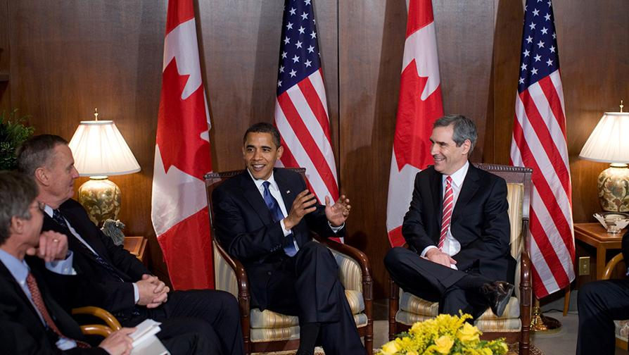 Ignatieff meeting with US President Barack Obama on February 19, 2009 during the President's first foreign trip since taking office. Ottawa, Canada.